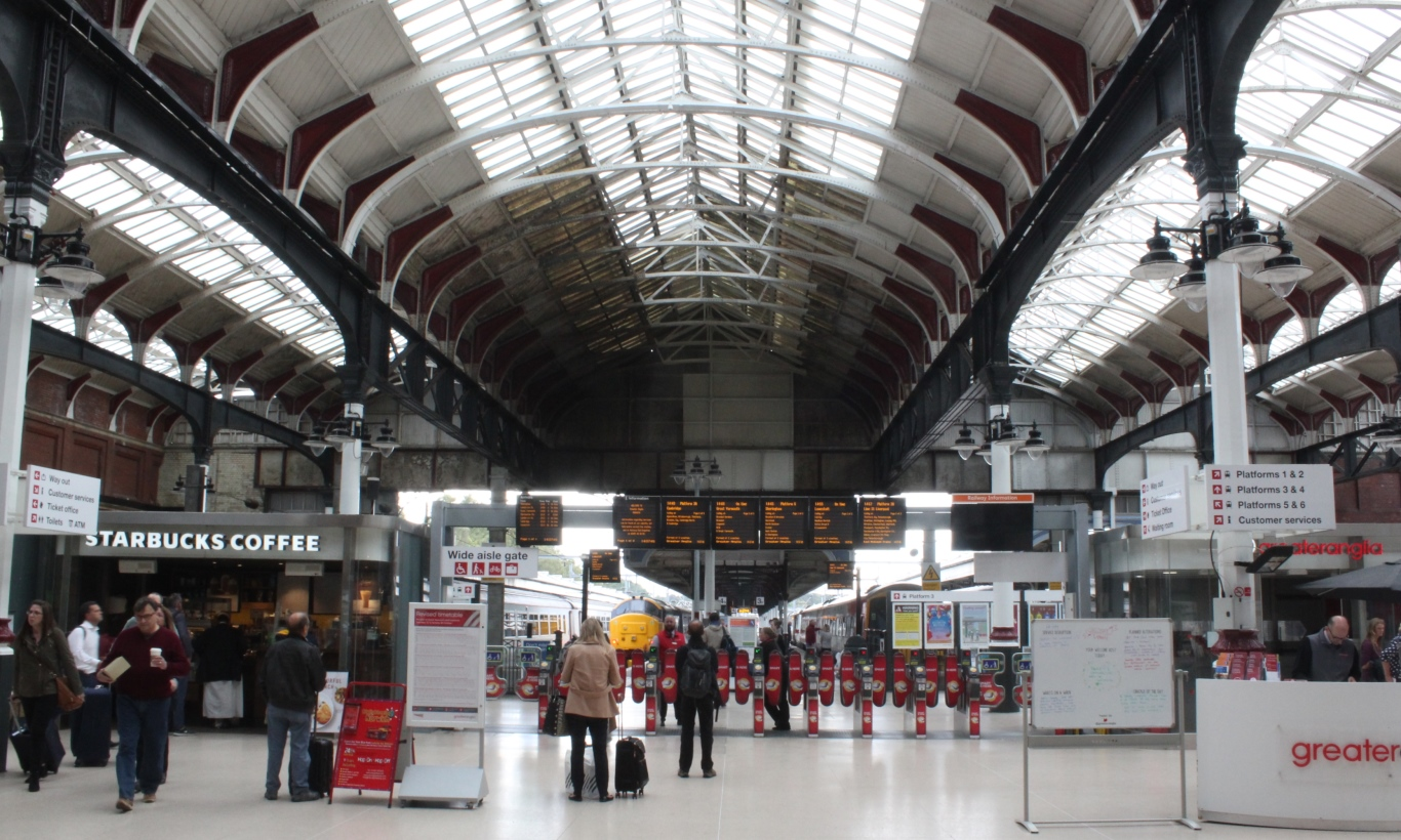 The concourse of the railway terminus at Norwich Thorpe.